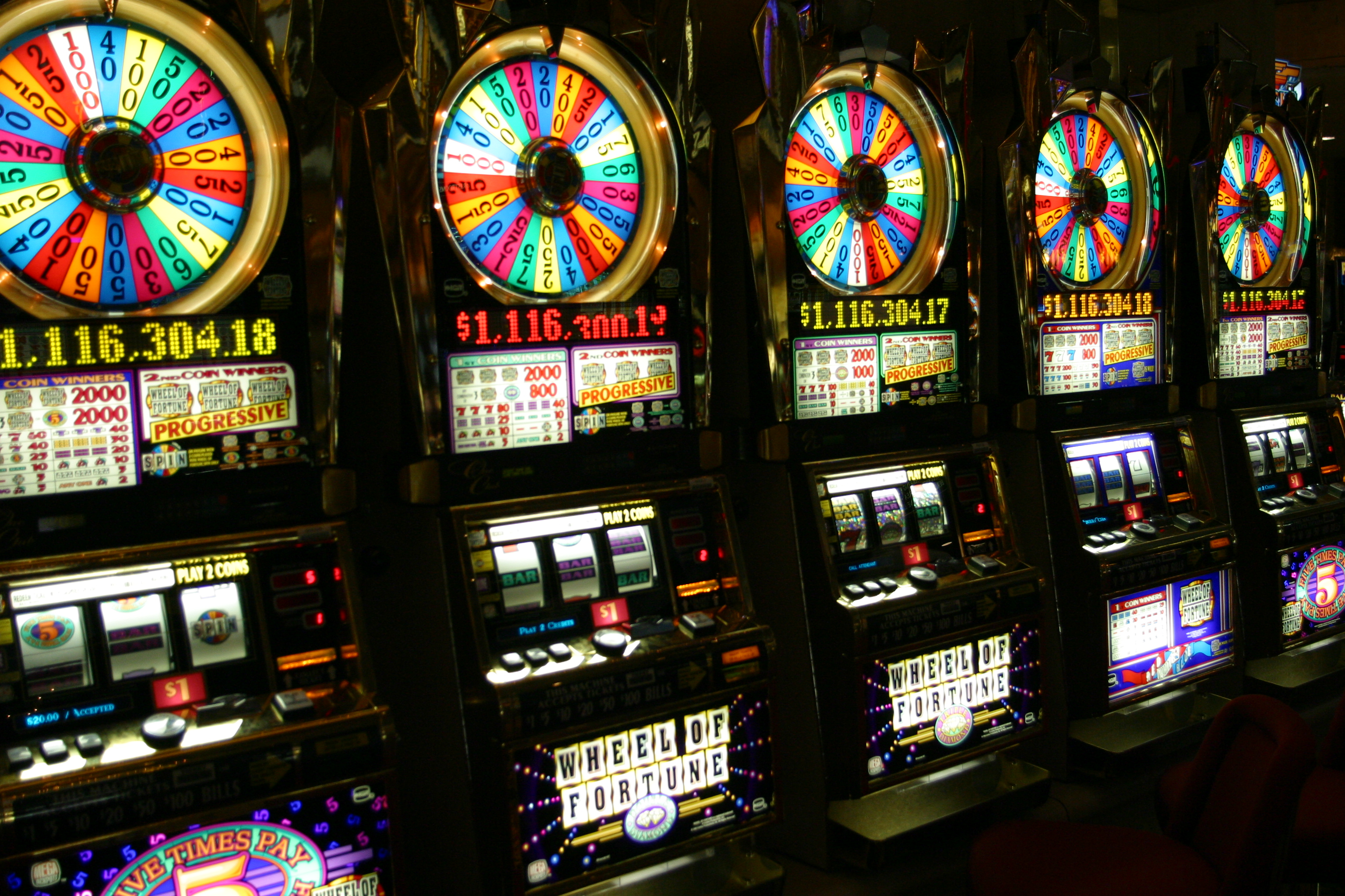 Slot machines in Las Vegas